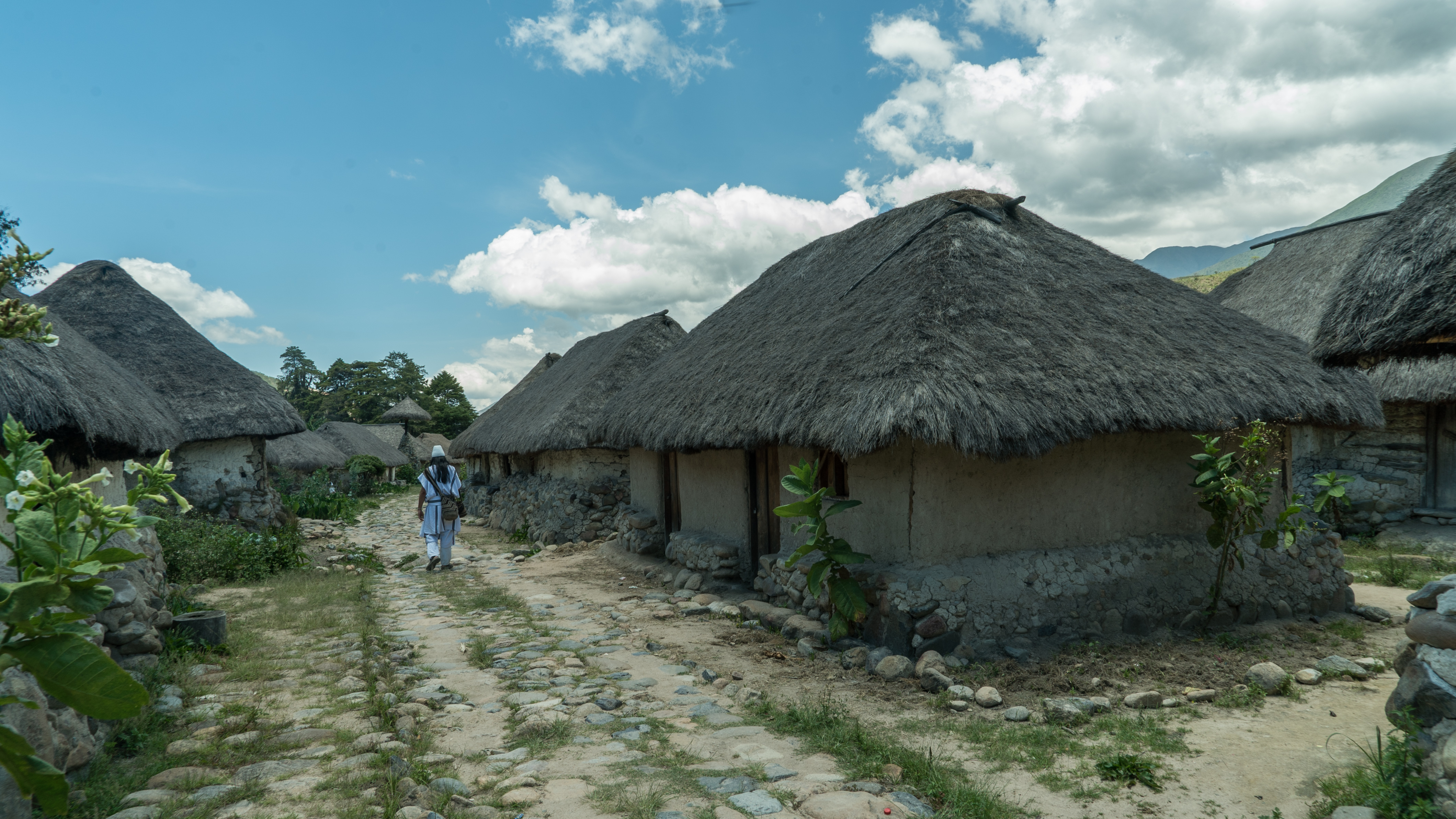 This is an image of the Biosphere Reserve or a Geopark: Sierra Nevada de Santa Marta